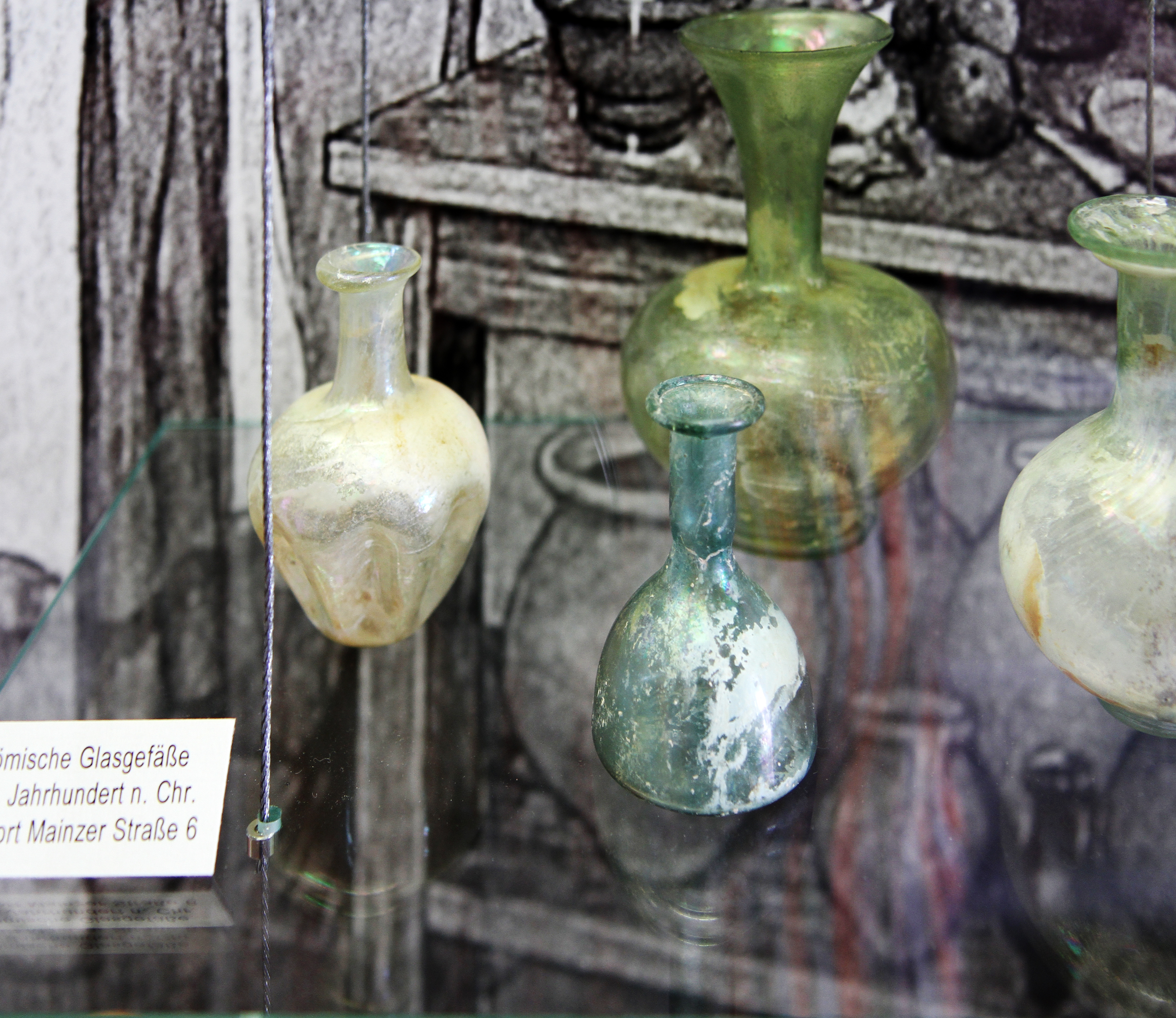 Ancient Roman glassware of Oberwesel